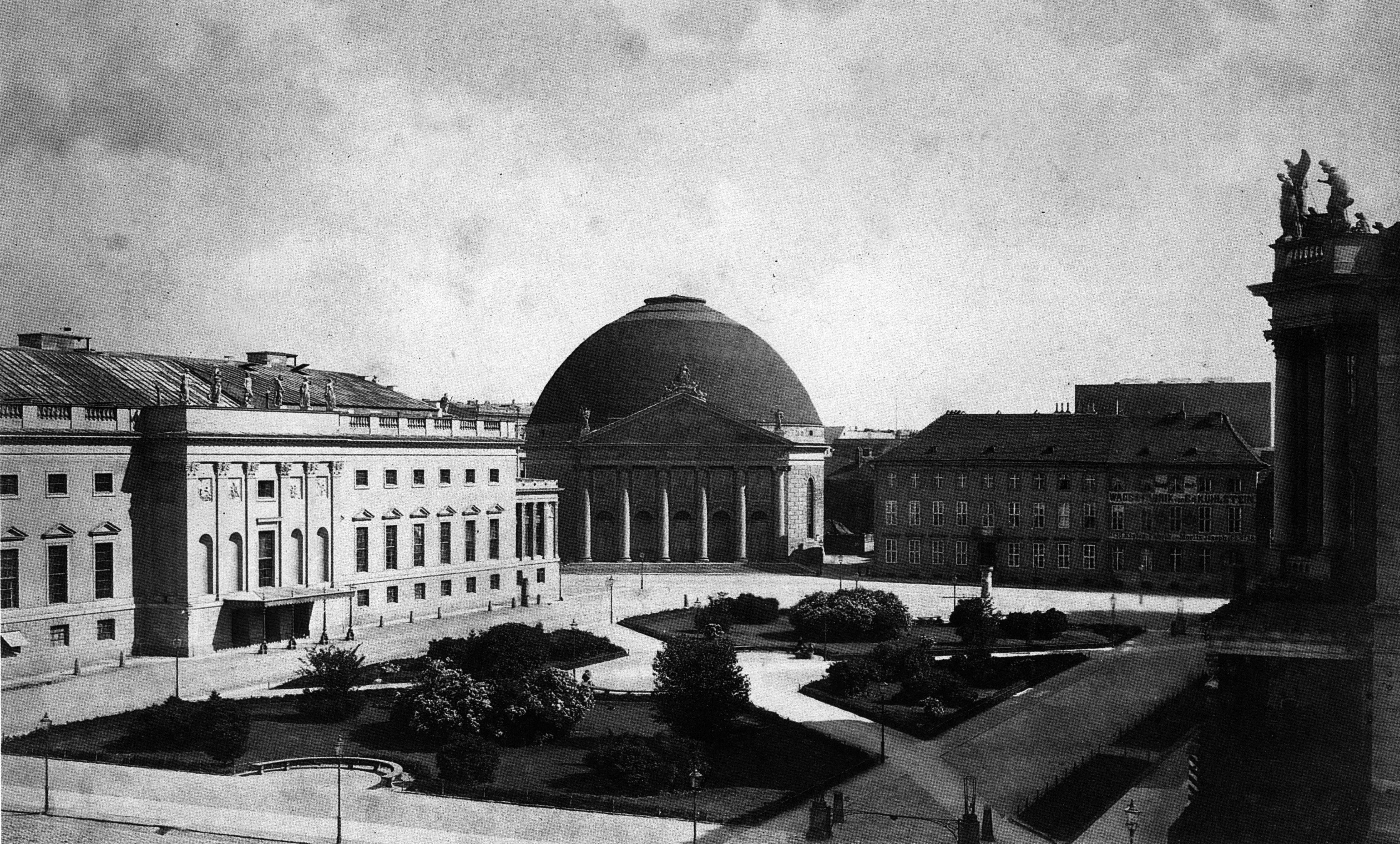 Opernplatz (“opera square”, now Bebelplatz) in Dorotheenstadt, Berlin (now in Mitte district). On the other side of the square lies the St. Hedwig's Cathedral.